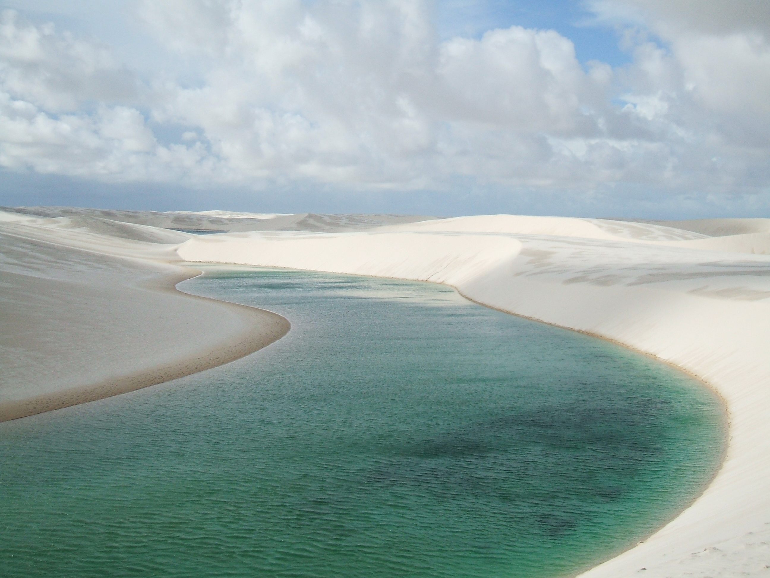 Pond at the Lençóis Maranhenses National Park, Brazil